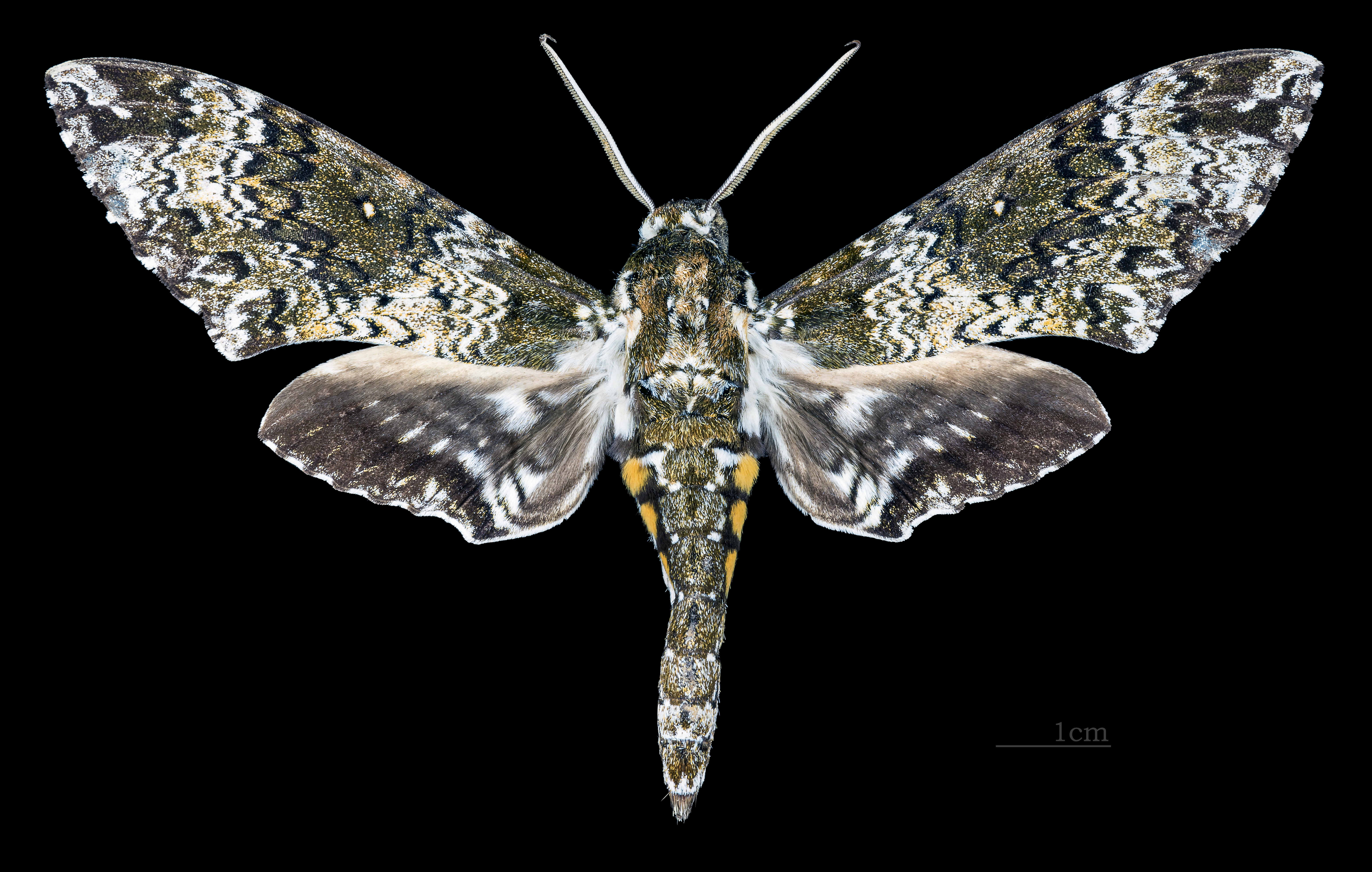 Manduca sesquiplex - Dorsal side Collection of the Mathematician Laurent Schwartz